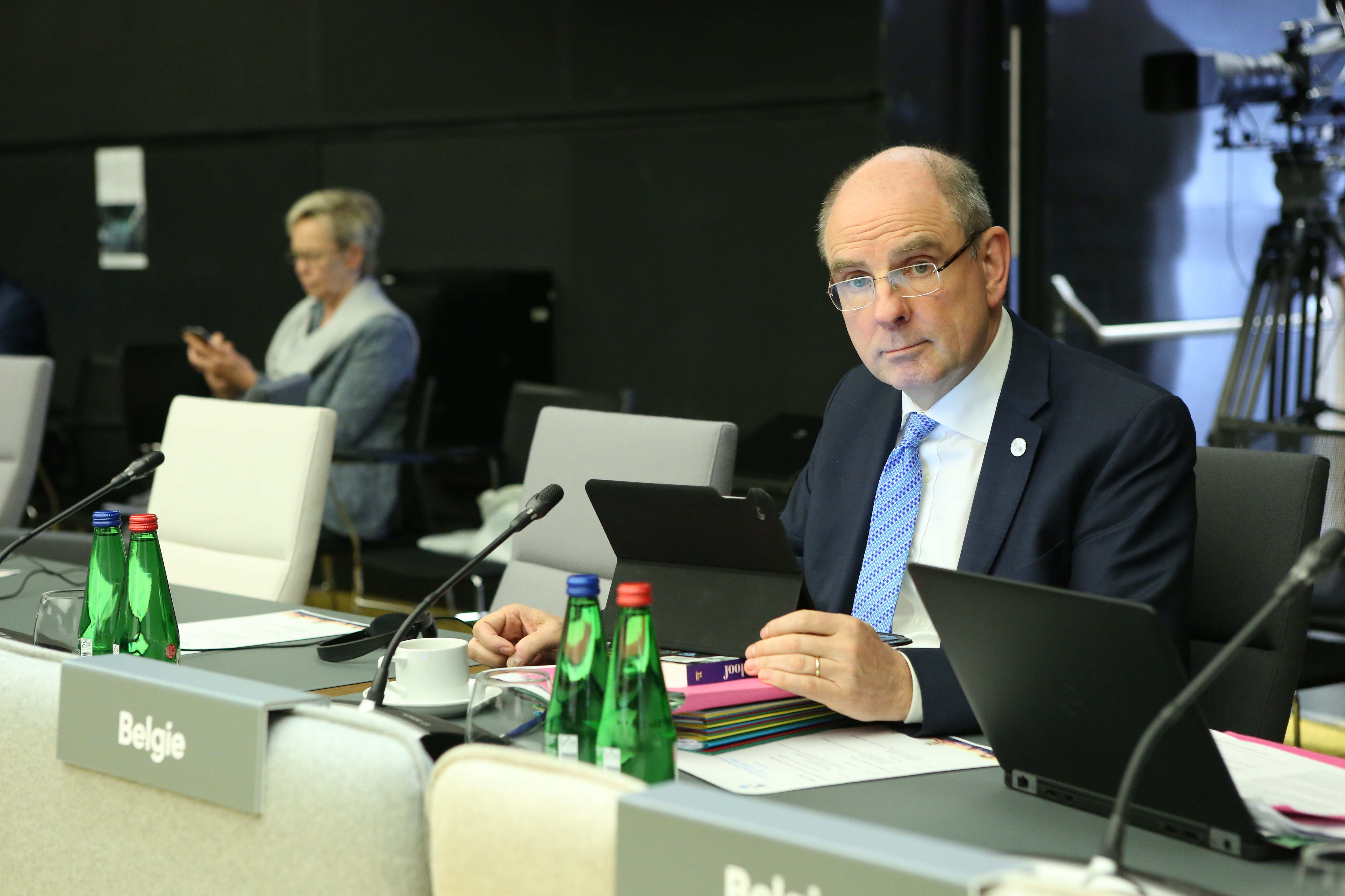 Koen Geens - Informal meeting of justice and home affairs ministers (iJHA) in Tallinn (2017)